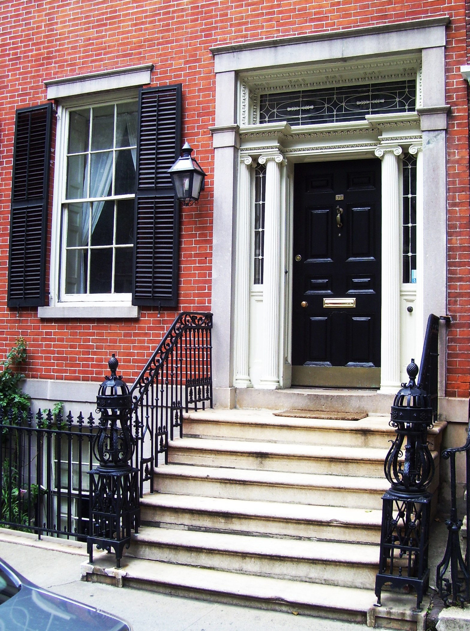 35 Charlton Street between Sixth Avenue and Varick Street in the South Village section of the Greenwich Village neigborhood of Manhattan, New York City, was built c.1820 in the Federal style houses. It is located within the Charlton - King - Vandam Historic District. (Source: "NYCLPC Charlton - King - Vandam Designation Report". The railing features a shoe scraper.)